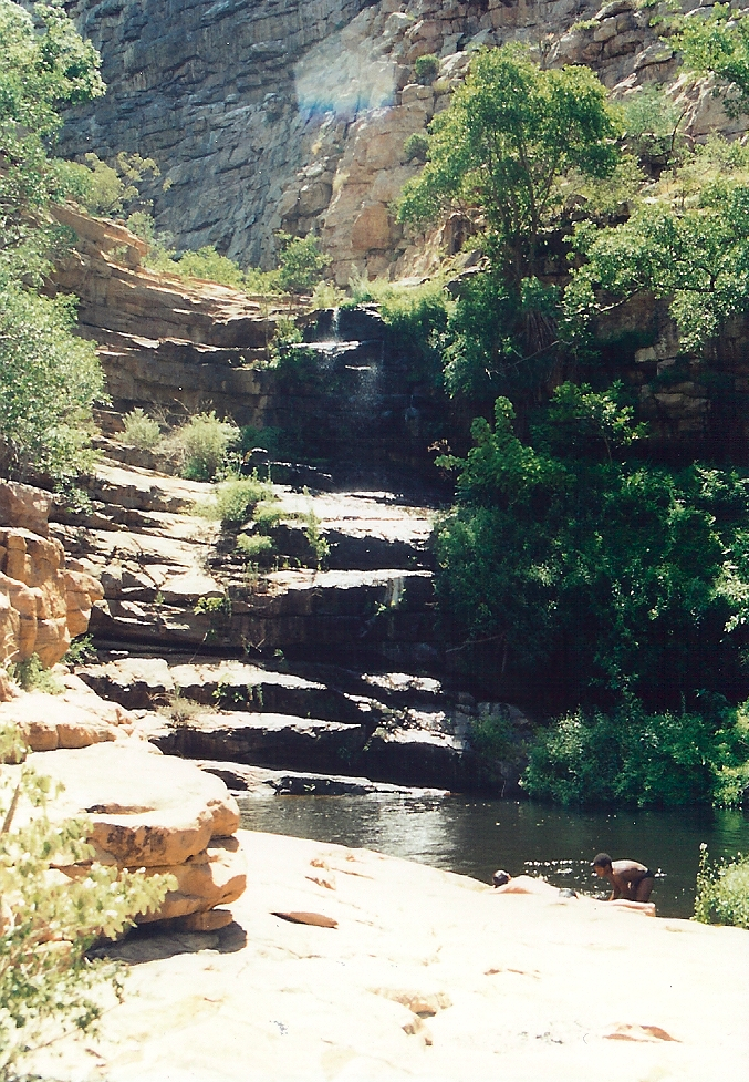 Boys playing in Moremi Gorge, in the Tswapong Hills east of Palapye, Botswana. Permanent cascades link the pools, the rain water seeping out of the porous rock. This permanent water is home to frogs, despite the aridity of the surrounding area.